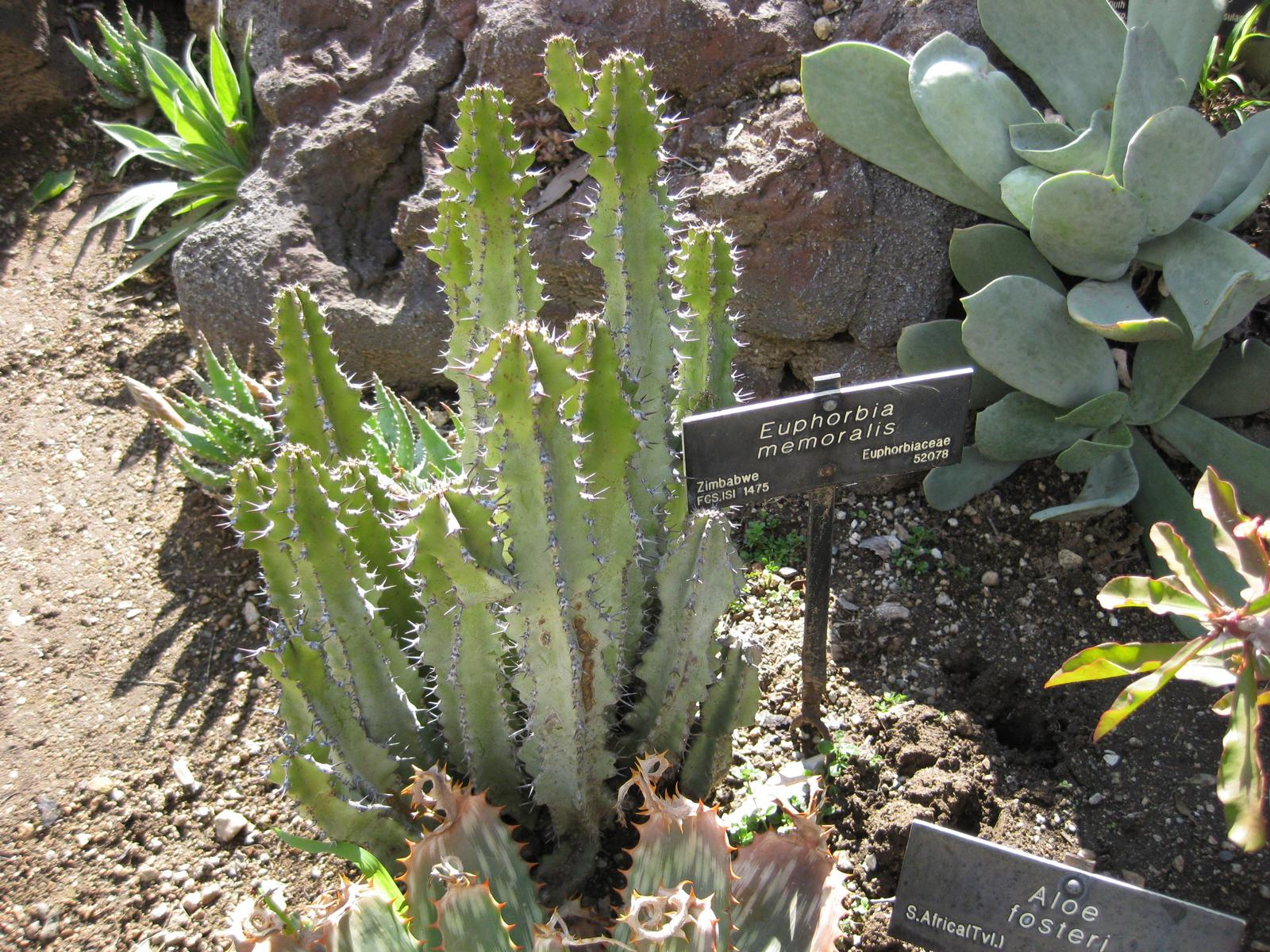 Photographed at Huntington Gardens (Los Angeles, California) in March